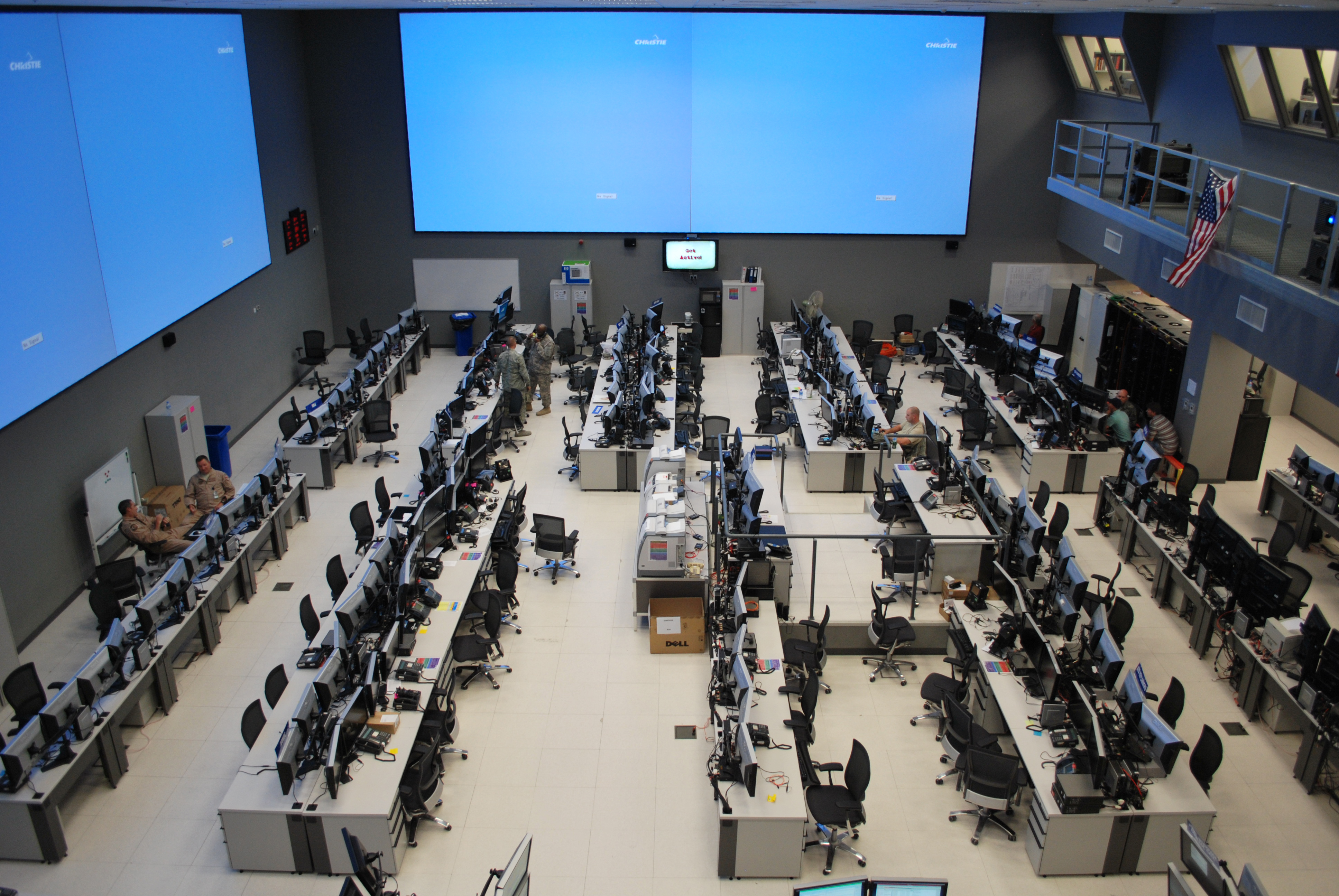 new USAFCENT Combined Air Operations Center on August 31, 2009